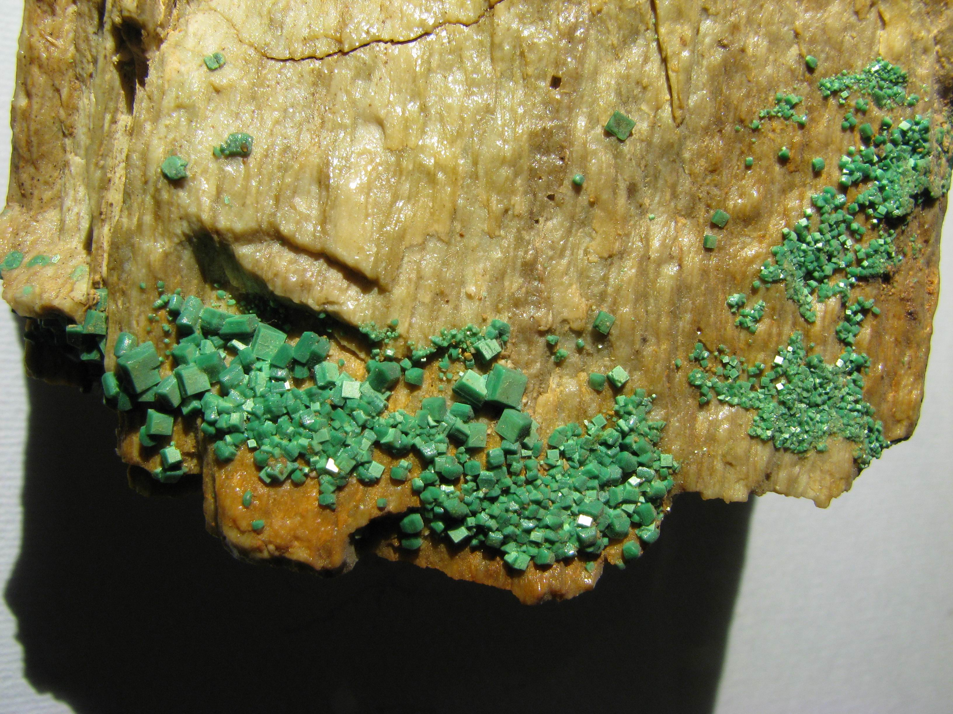 Torbernite, crystals on besimaudite - Bric Colmé, Cuneo, Piemonte, Italy